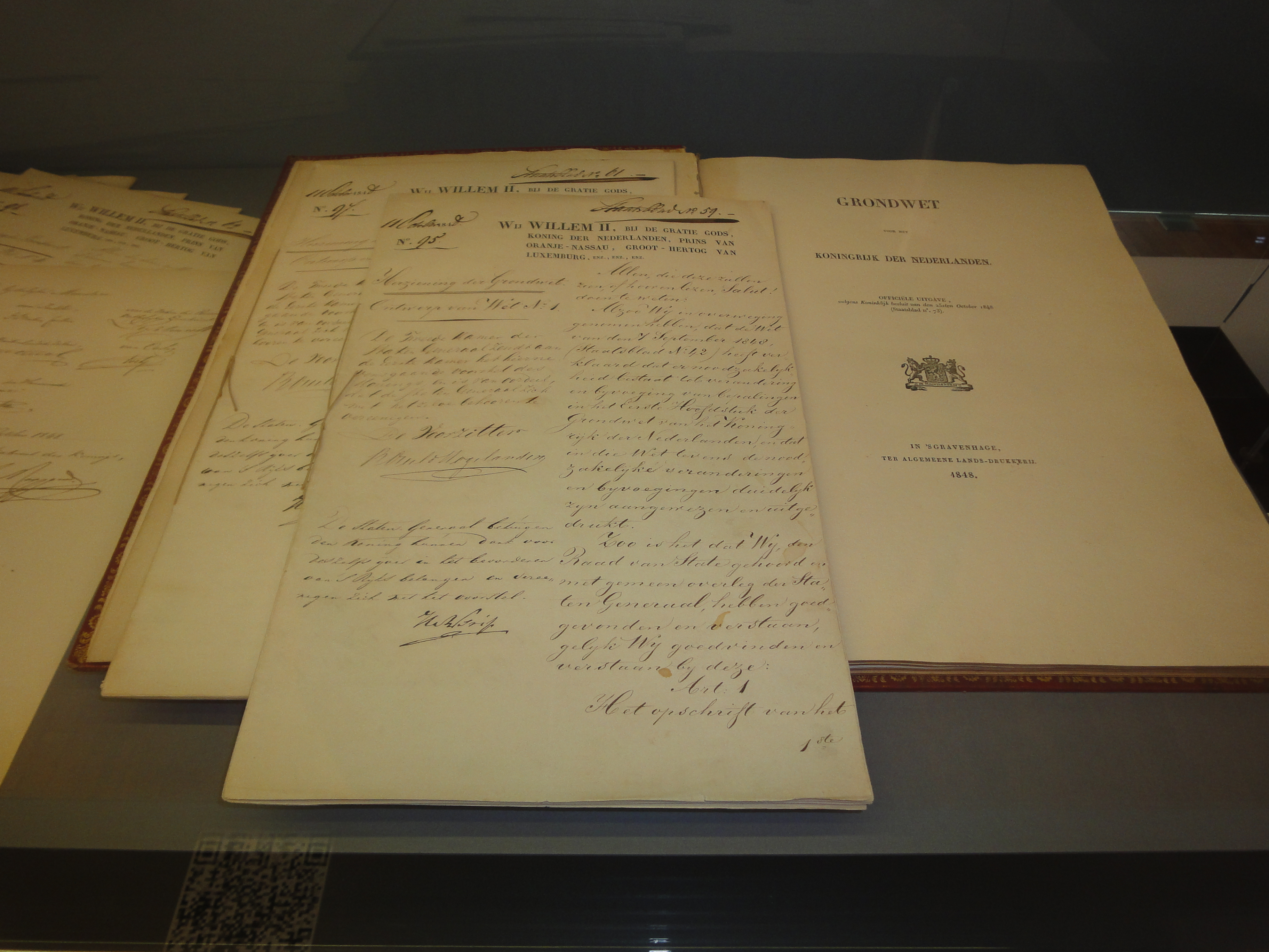 1848 constitution of the Netherlands on display